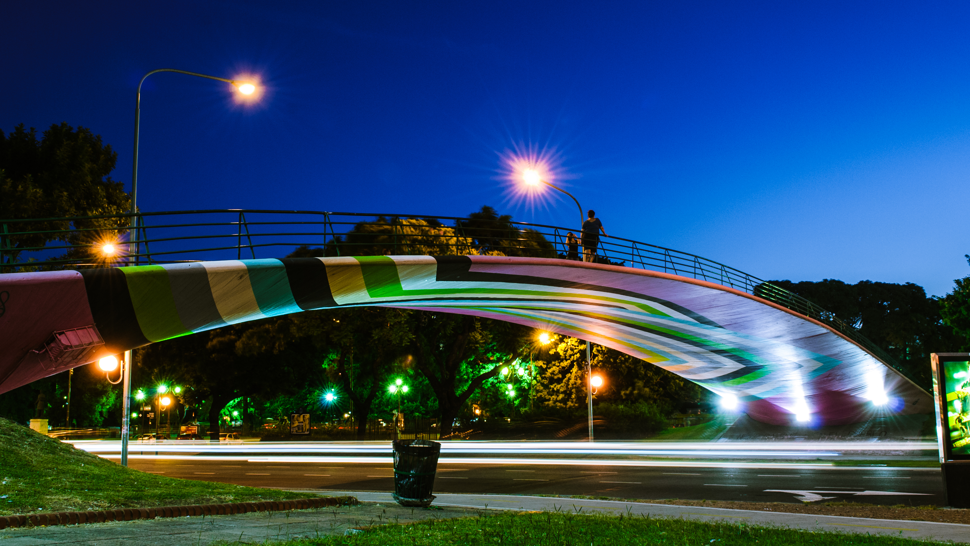 Bridge over Figueroa Alcorta Avenue in Buenos Aires, Argentina (2013), with paint art intervention by Swiss artist Sabina Lang and Daniel Baumann.